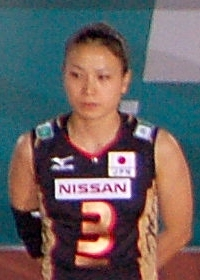 Yoshie Takeshita. Nov 6, 2007 at 17:57 JST, Kadoma/Osaka. The national anthem of Japan being played before an event.